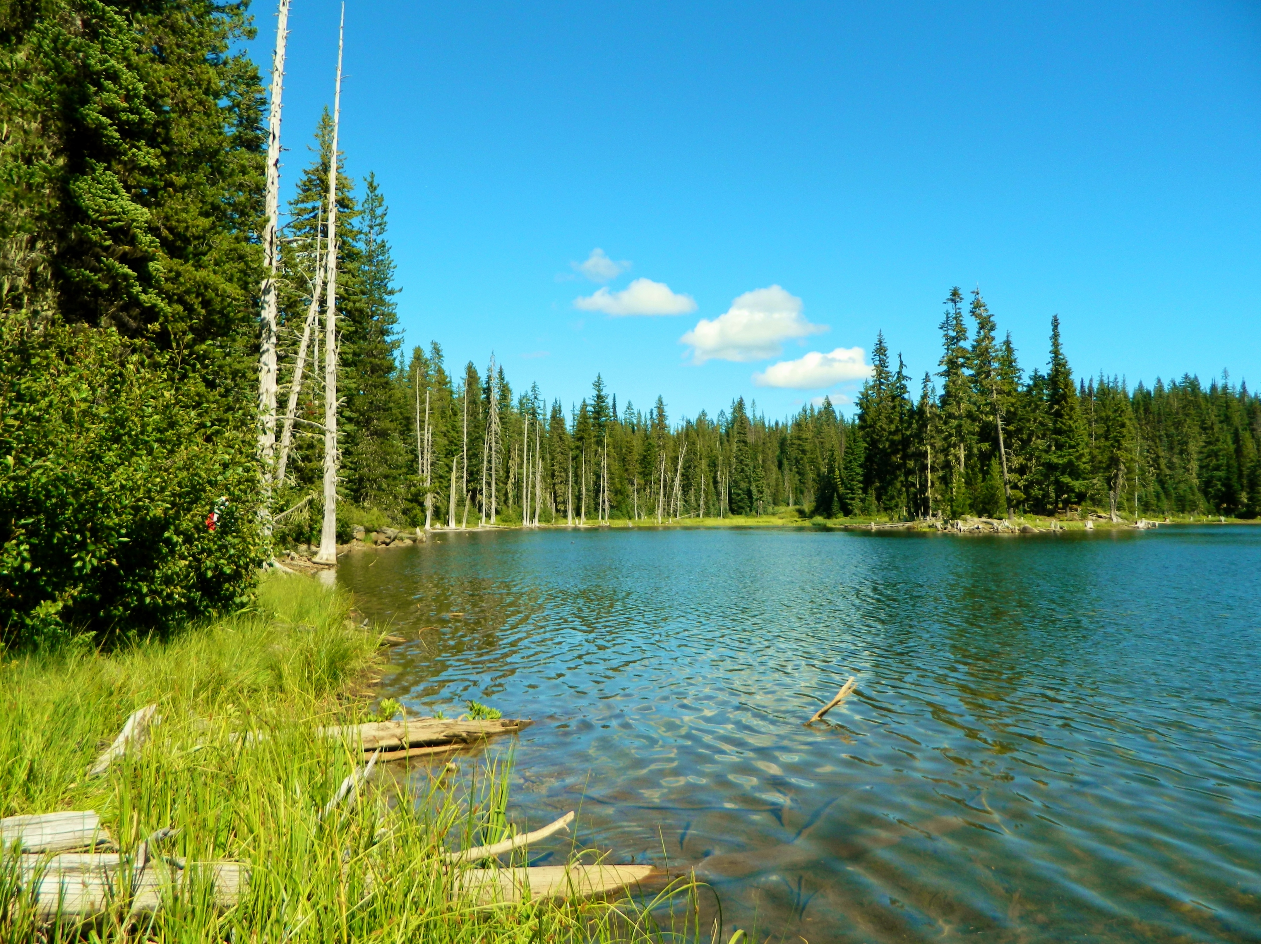 High Lakes Area, GPNF, WA